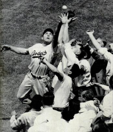 Brooklyn Dodgers first baseman Gil Hodges in a 1953 issue of Baseball Digest. Original caption:"Brooklyn's Gil Hodges finds style cramped by fan who snares foul into box seat before first baseman can reach it. Fan got ball, also bum's rush from park by cops for interfering with play. Scene is Ebbets Field."